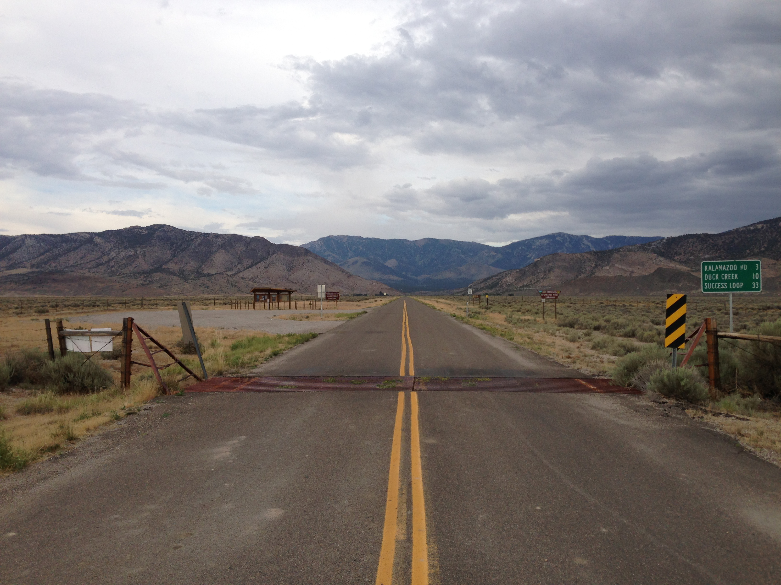 View south along Duck Creek Road (White Pine County Route 29, former Nevada State Route 486) about 10.4 miles north of the end of pavement in White Pine County, Nevada